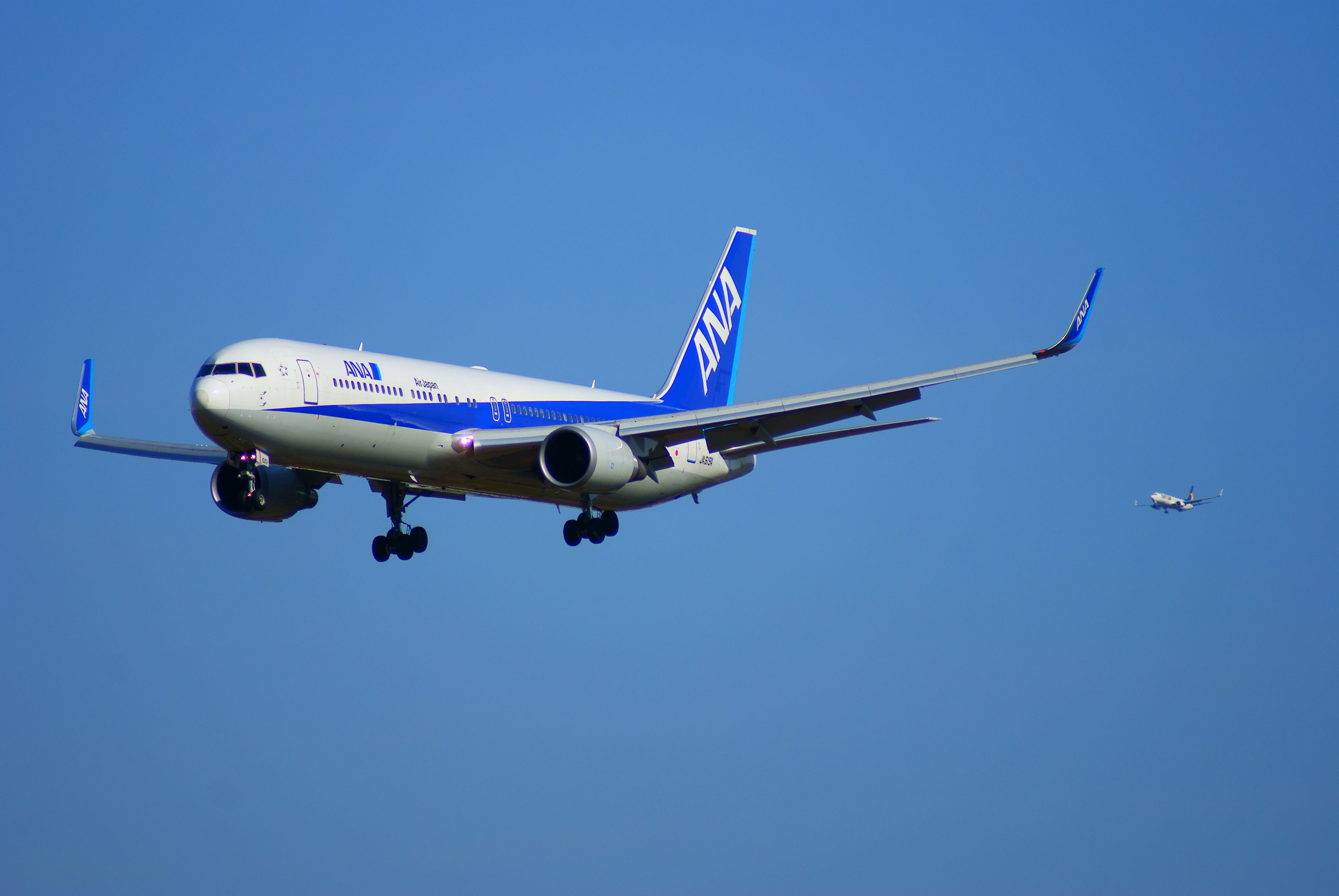 At Tokyo Narita Airport, simultaneous landing is performed in order to process busy traffic.